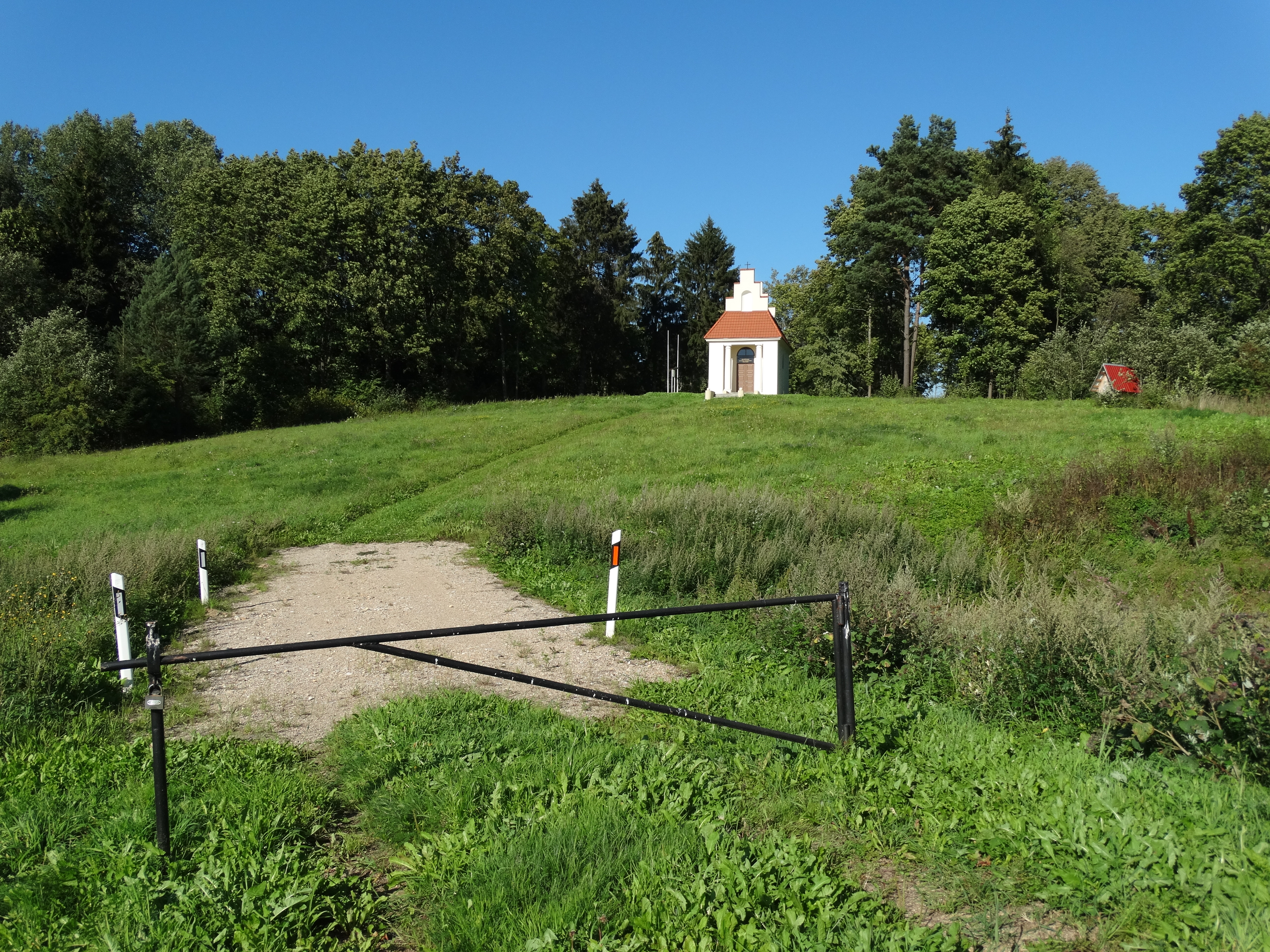 Chapel in Punžionys, Švenčionys District, Lithuania